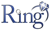 Ring programming language logo